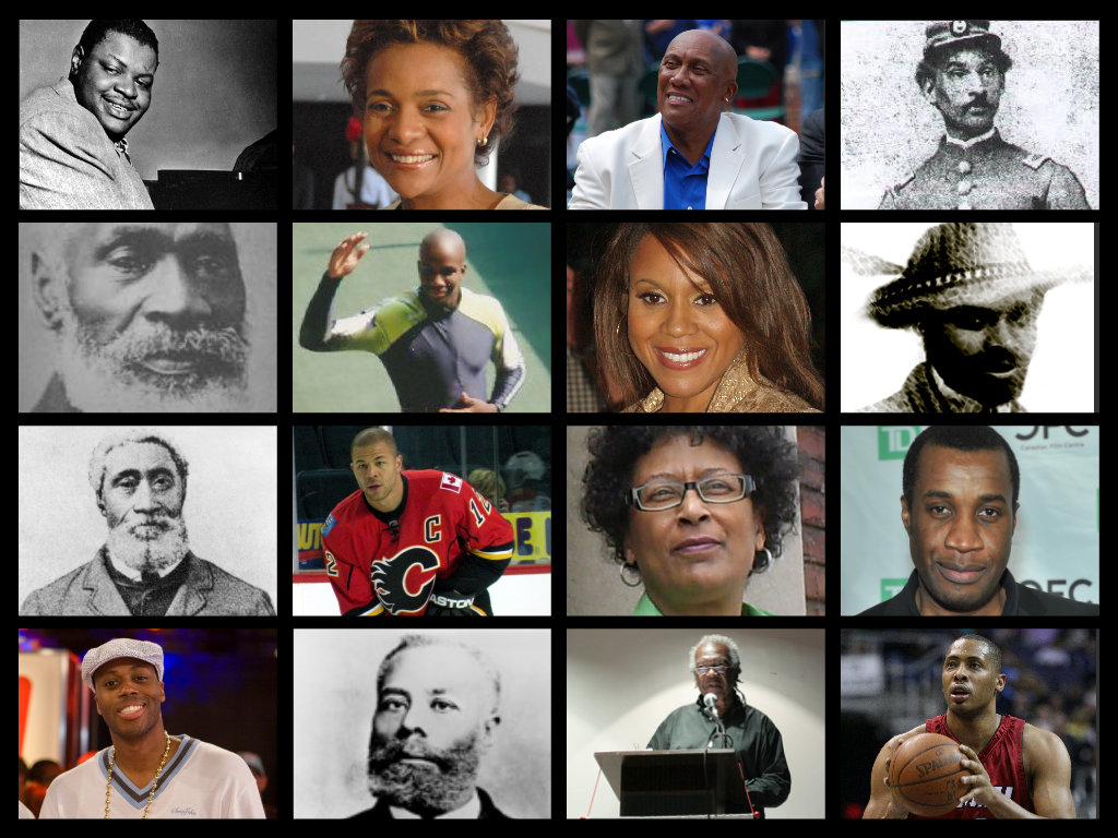 Collage of prominent Black Canadians.